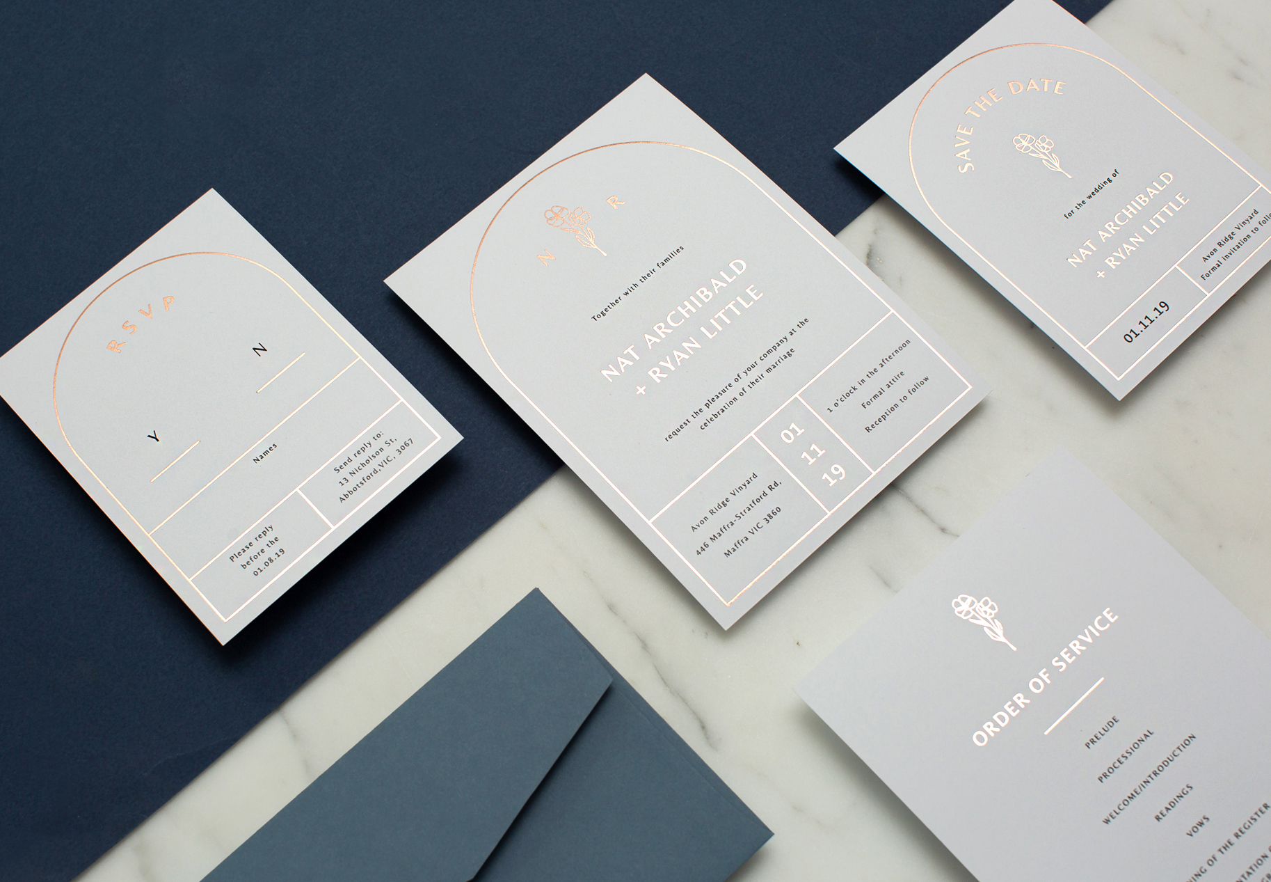 Photo example of a modern wedding invitation using a new foil print sleeking technique.